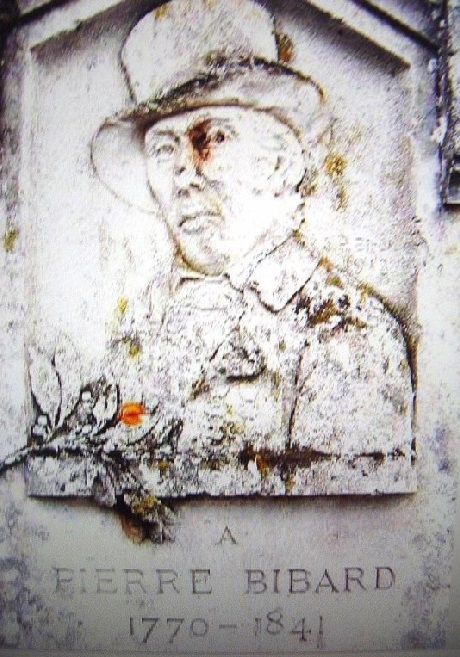 Source : Tessoualle Maine-et-Loire Cemetery